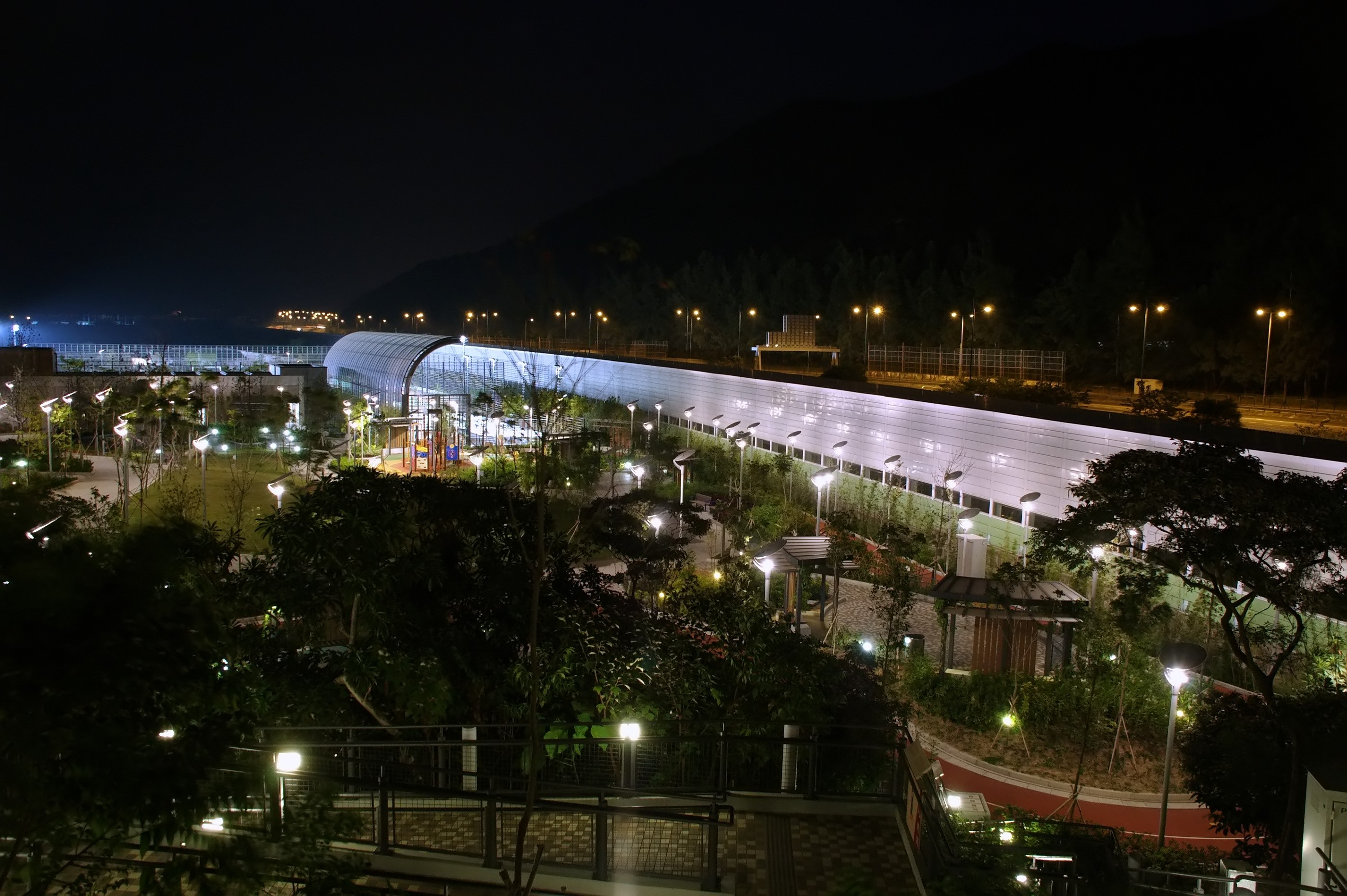 Night view of the Garden of Health, Tung Chung North Park, Hong Kong.